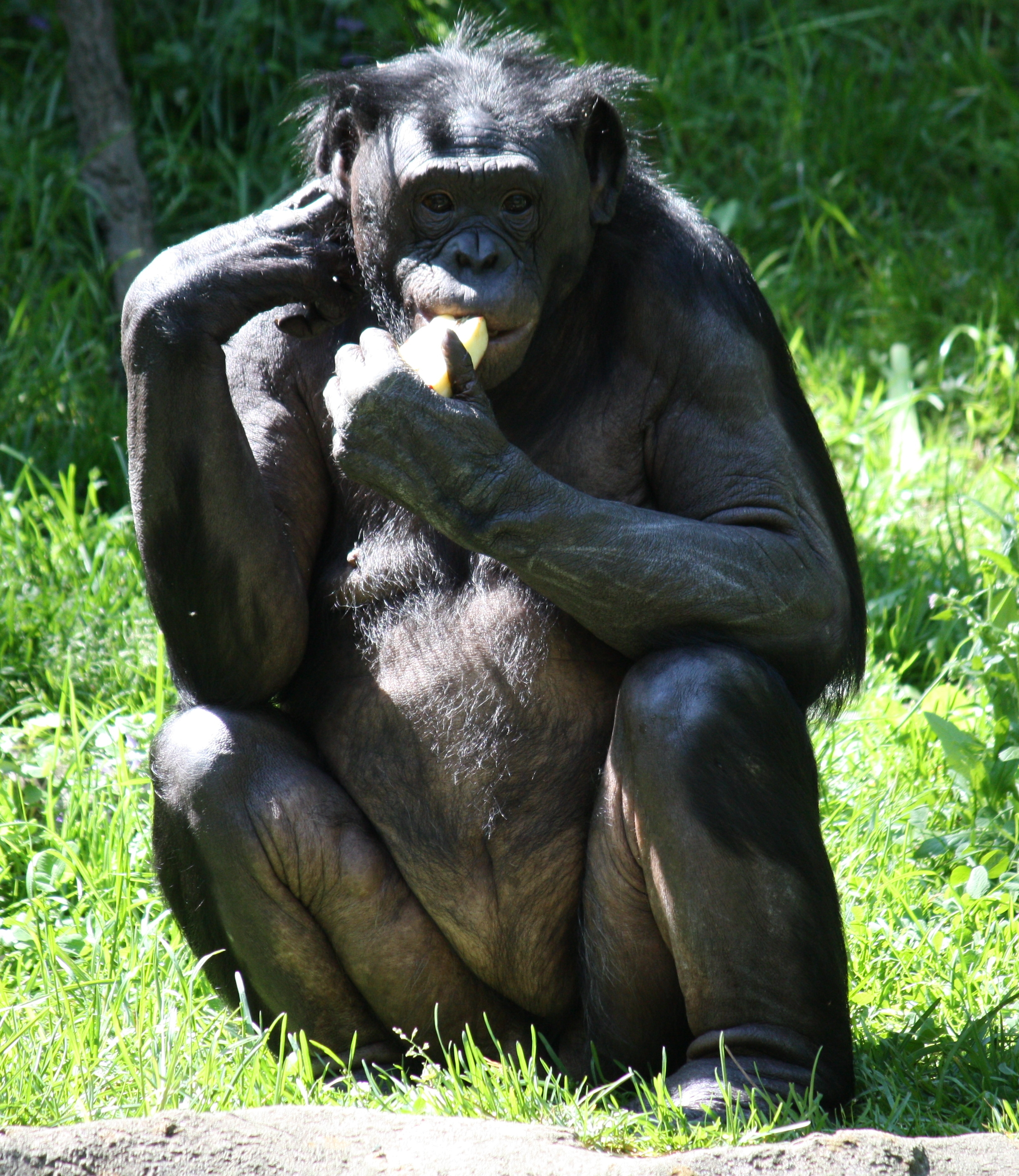 Bonobo Pan paniscus at Cincinnati Zoo